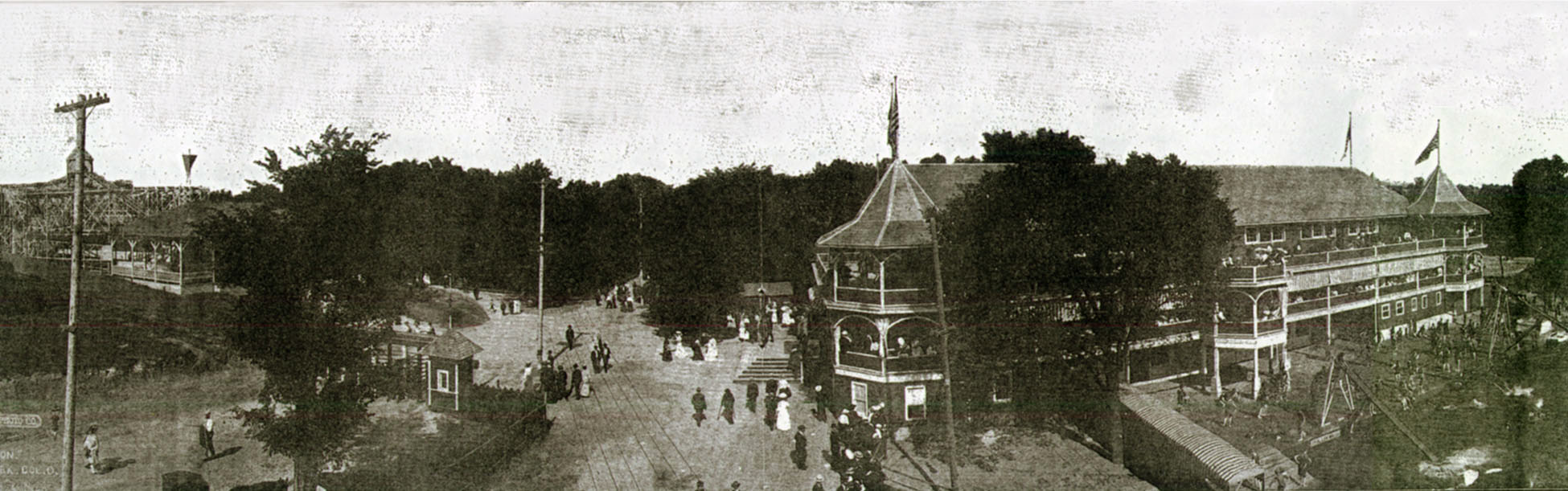 This was the fold-out centerpiece of Indianola Park's 1908 promotional booklet.